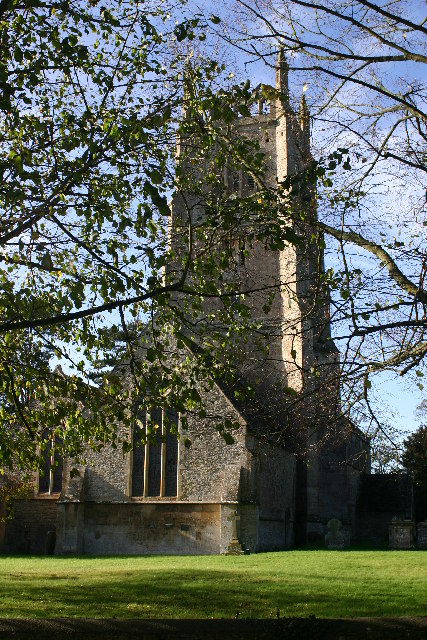 Kempsford Church.